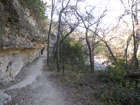 This part of Shoal Creek, between 29th and 31st Streets, is well-shaded by trees and an overhanging cliff. Since this photo was taken, a railing has been added on the creek side mof the trail.